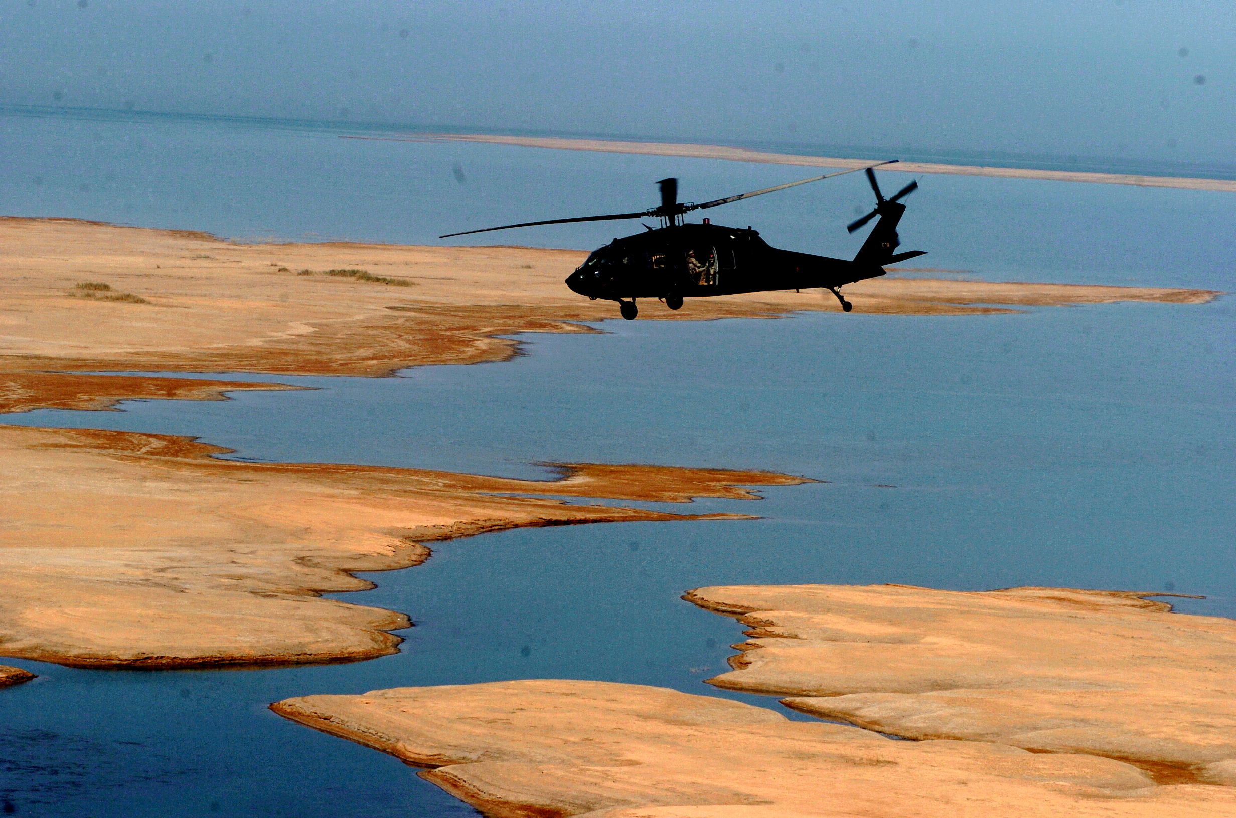 US Army helicopter over Buhayrat al-Habbaniyah, or Lake Habbaniyah, Iraq. An aerial photo tour of Salah ad Din province was taken by provincial leaders to highlight its archaeological sites and economic development in May 2008. The 1st Brigade Combat Team, 101st Airborne Division has partnered with the province on significant gains. In Salah ad Din province, over 800 men have reconciled, economic activity is flourishing, attacks have dropped and thousands of Shiite pilgrims visited the Al Askari shrine in Samarra. 1st Brigade Combat Team, 101st Airborne Division (AA) Public Affairs Photo by Maj. John Paul Arnold Date Taken:05.11.2008 Location:SALAH AD DIN, IQ Related Photos